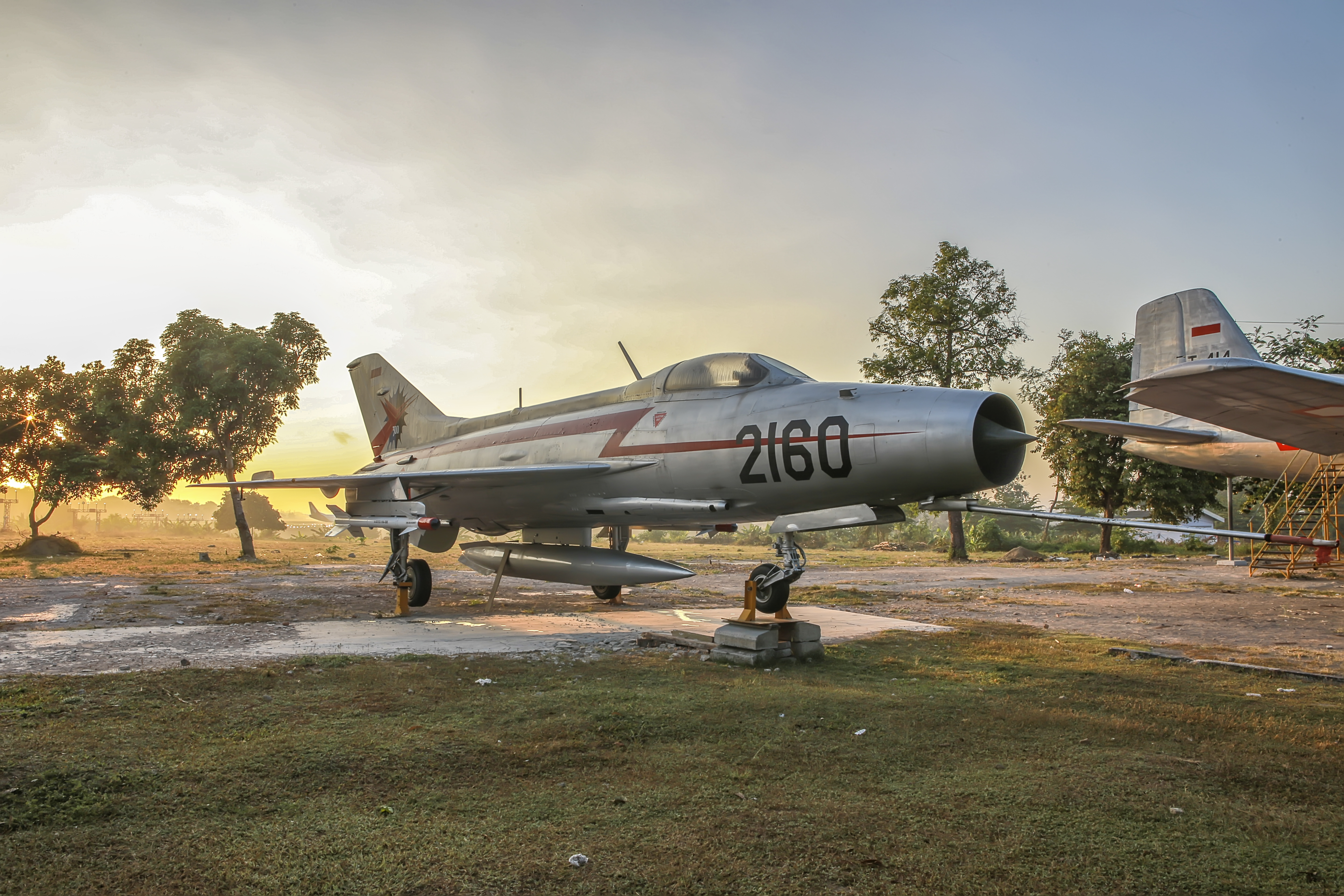 Pesawat MiG-21F-13-Fishbed C, TNI AU